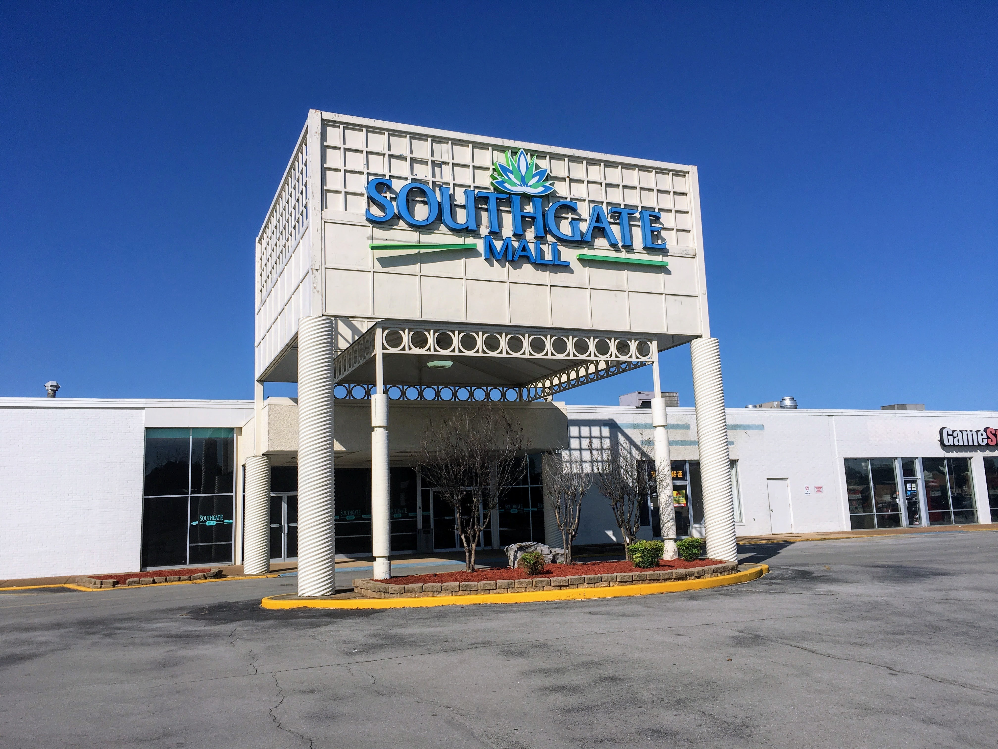 This is the former entrance to a enclosed mall that is now a strip mall called Southgate in Muscle Shoals, Alabama.